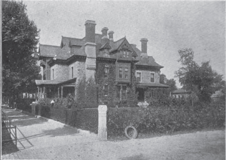 The mansion of James Oliver, inventor and industrialist of South Bend, Indiana, USA.